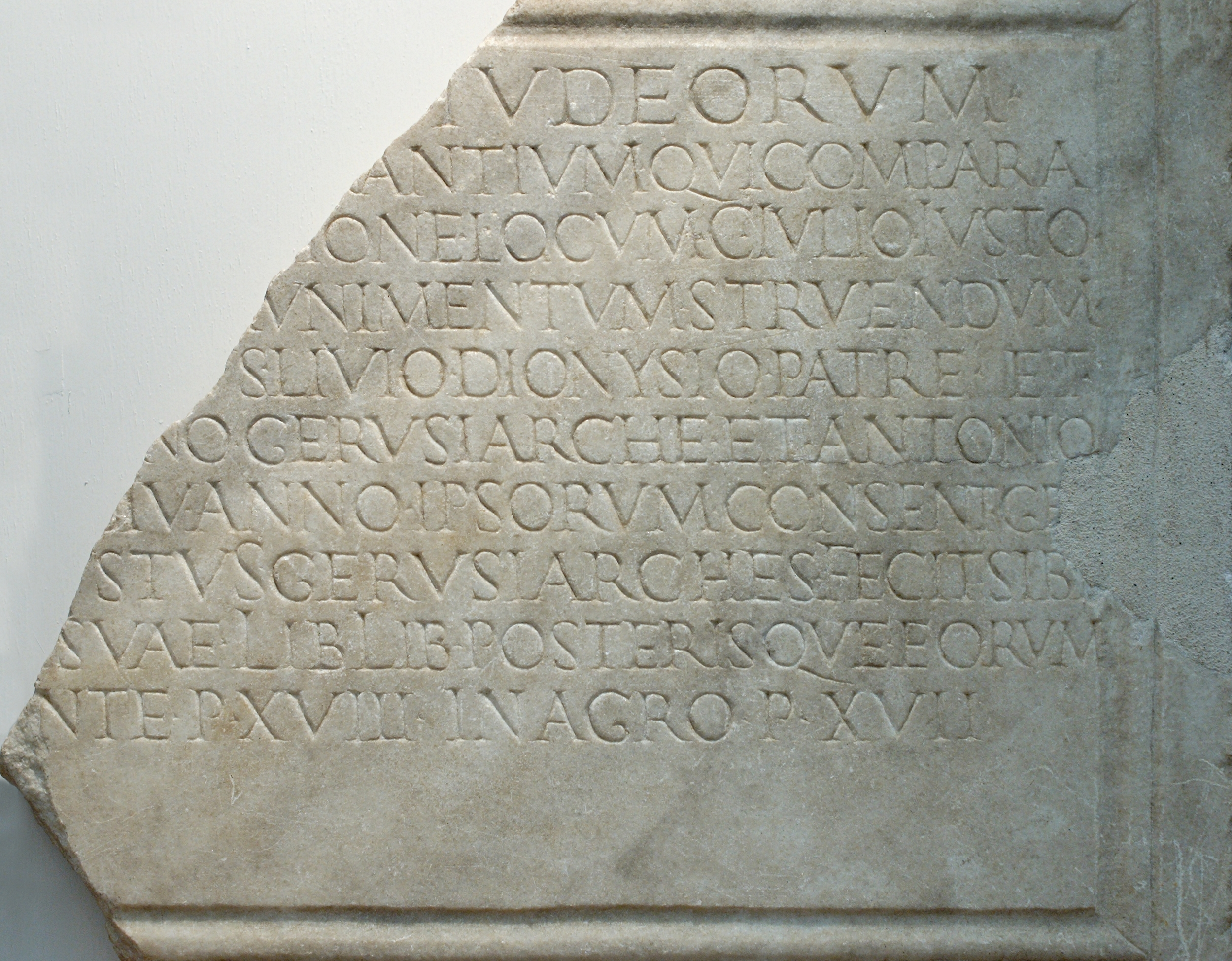 Decree of the Jewish community of Ostia granting gerusiarch (president of the community) C. Julius Justus a piece of land for him to build a monument for himself and his family. Marble, first half of the 2nd century CE? From the presidental estates in Castelporziano, near Rome.